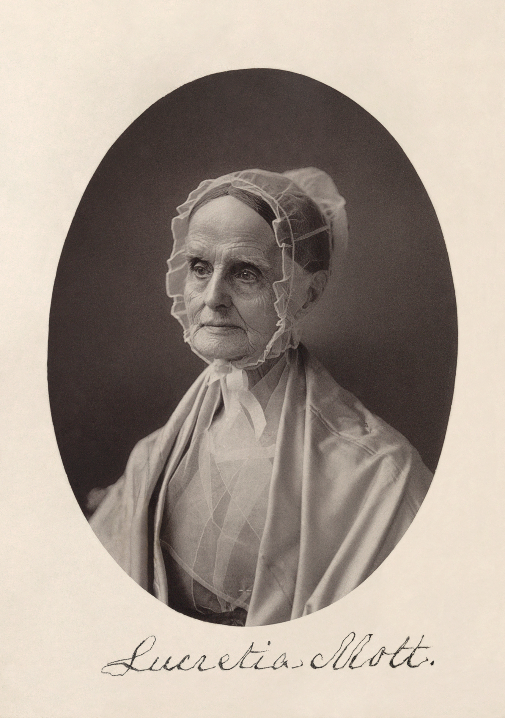 Lucretia Mott, from the records of the National Woman's Party. Signature matches other signatures of hers. Photographic print, 6. 5 x 4 in. (this may refer to the uncropped original, if so, nearer say, 5.5 x 3.5 as cropped) Flipped version of the photograph published in The Suffragist, 8, no. 8 (Sept. 1920): 195, and The Suffragist, 8, no. 10 (Dec. 1920): 314.